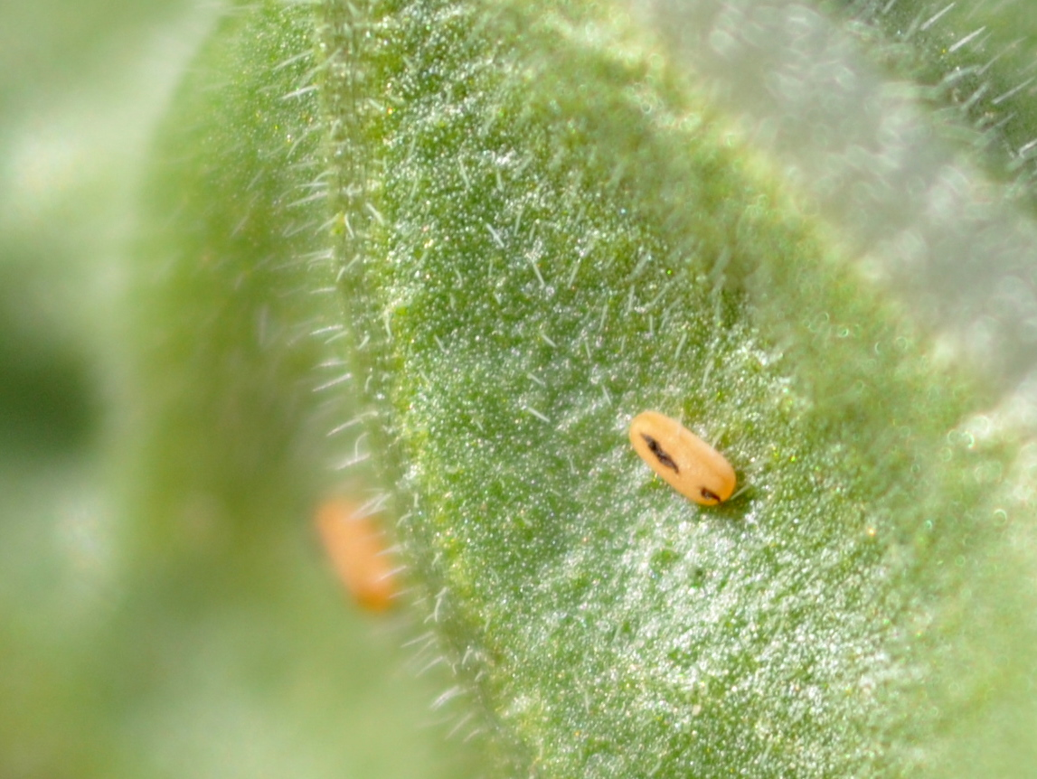 Eggs of the large bee fly in Bahrenfeld, Hamburg.